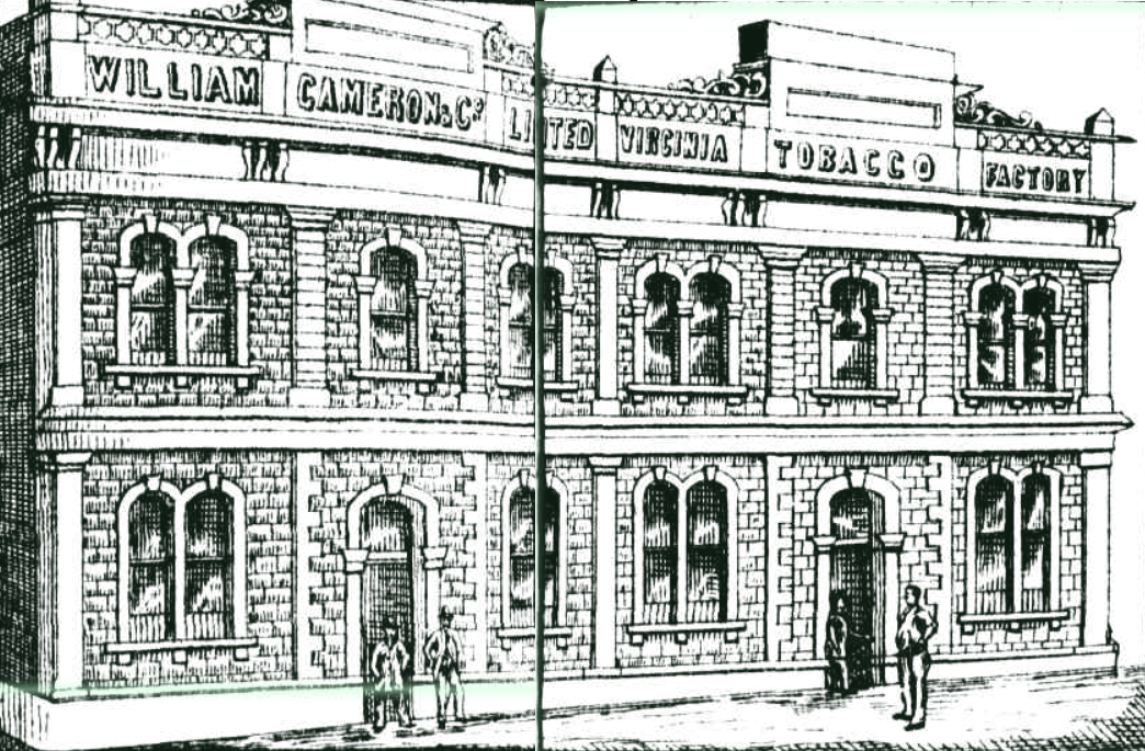 Drawing of two storey building in Grenfell Street, Adelaide designated William Cameron's Virginia Tobacco Factory